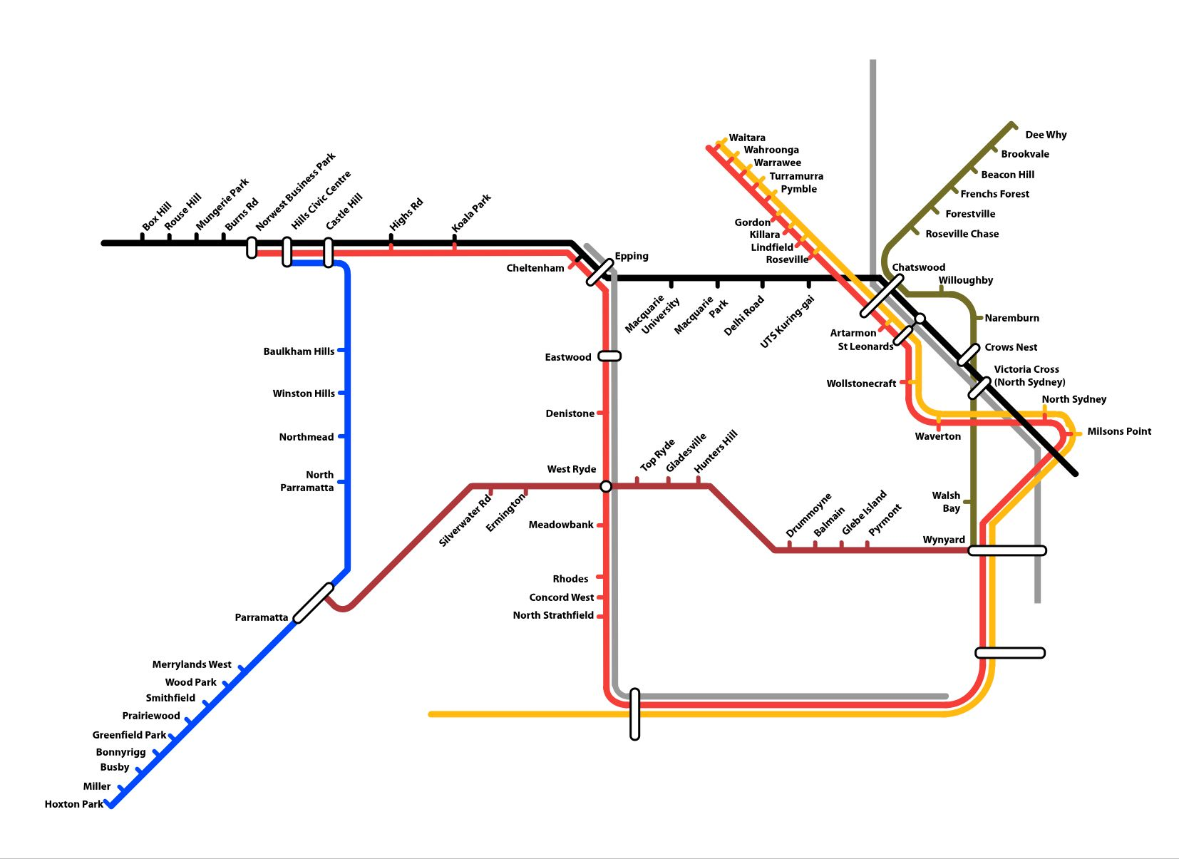 Information - partial diagram of Ron Christie's proposal for an expanded CityRail network. Source - own work. Copyright license: category:Rail networks category:Maps